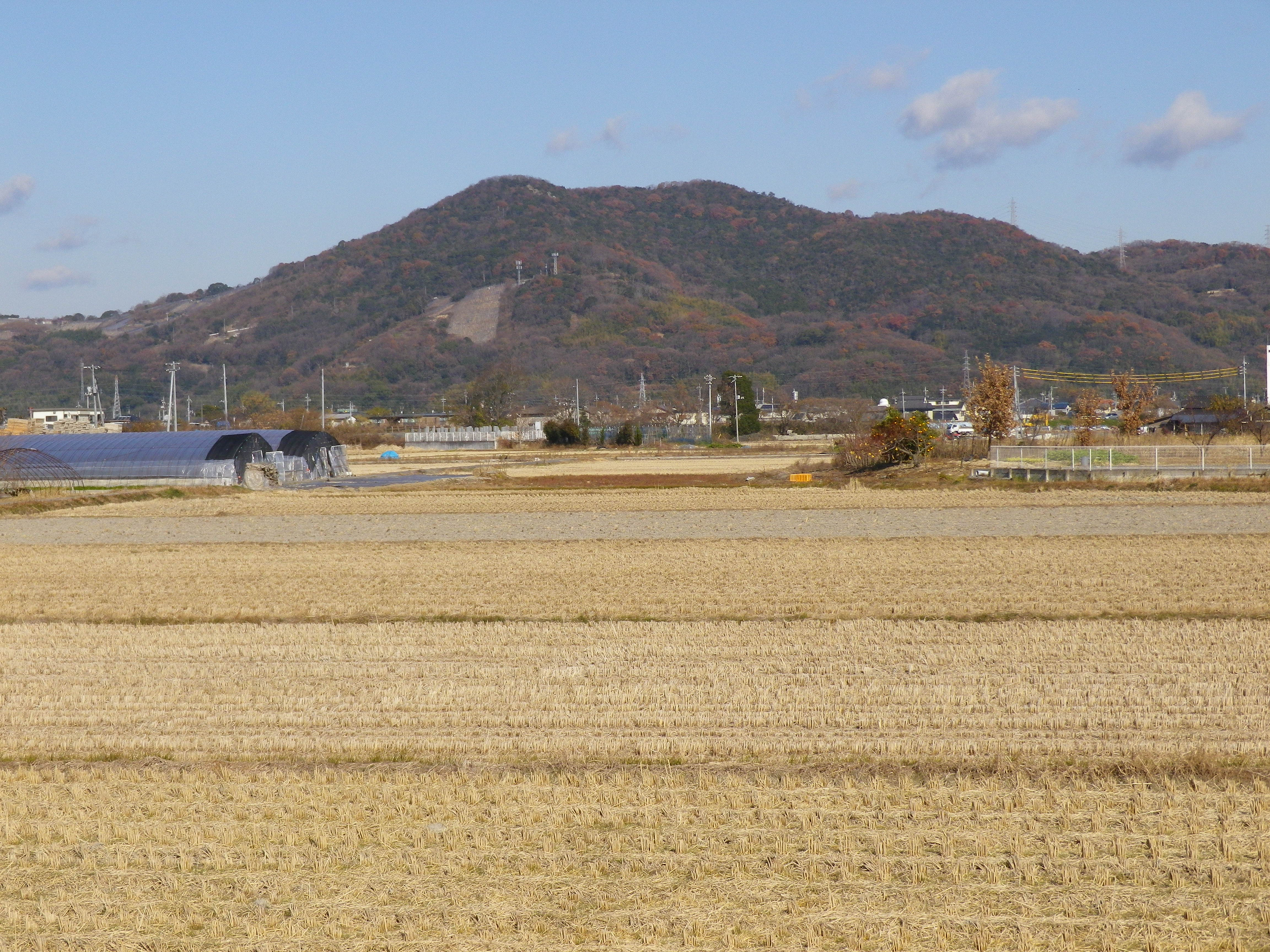 Keshigoyama(south side) and Okayama plain